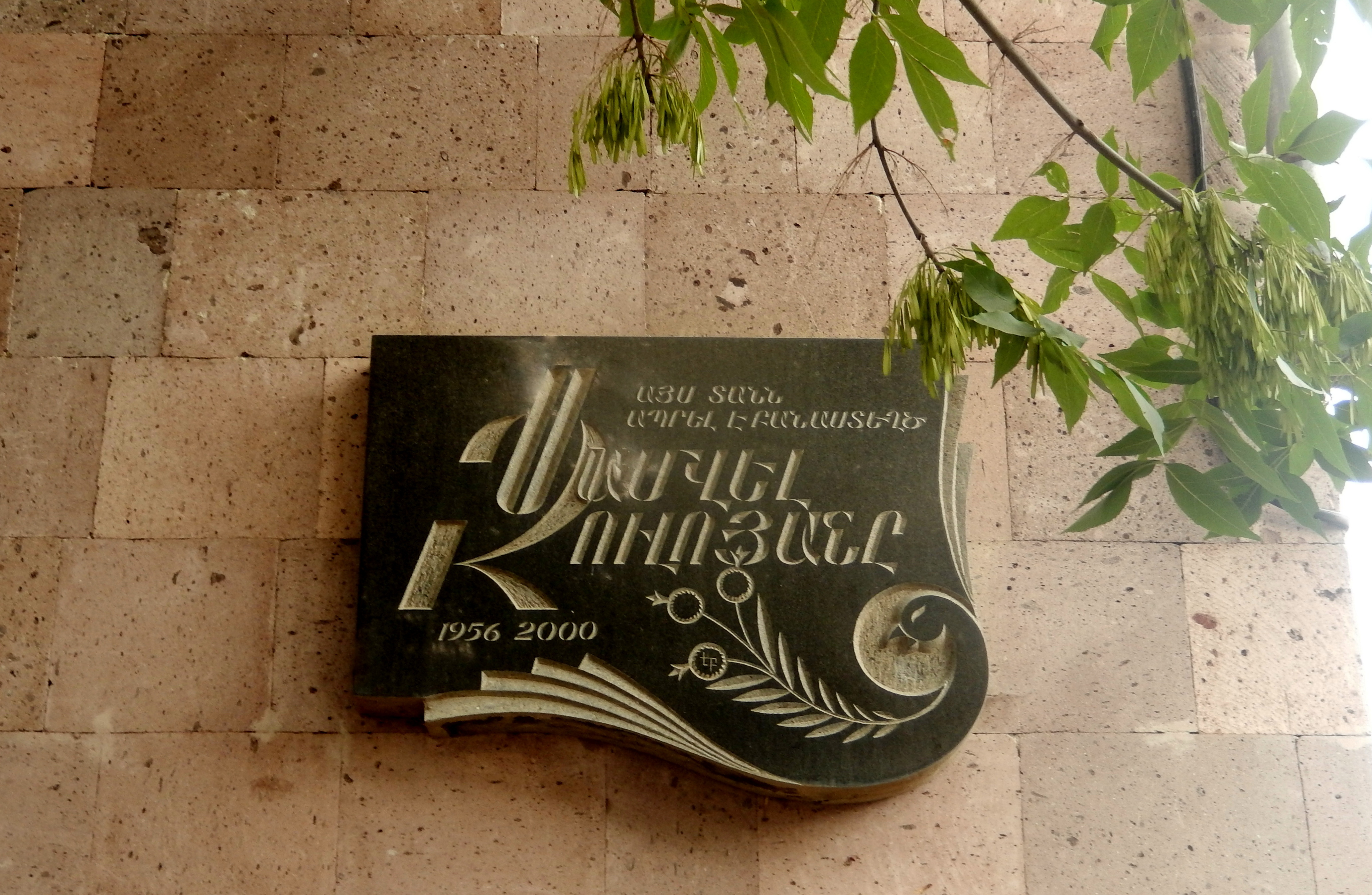 Plaque of Samvel Zouloyan 1/35